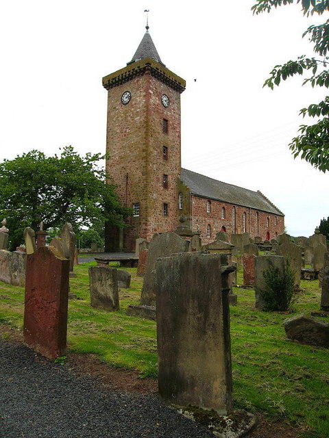 Greenlaw Church. Built in about 1675, the tall tower originally separated the church from the Tollbooth to the west. The door and windows are heavily reinforced as the tower was built as the town prison, and remains of the market cross are displayed against the west wall. There is no connecting passage between the church and tower, although a window on an upper storey of the tower allowed prisoners to watch church services. Greenlaw served as the County Town of Berwickshire in the 18th and 19th centuries.